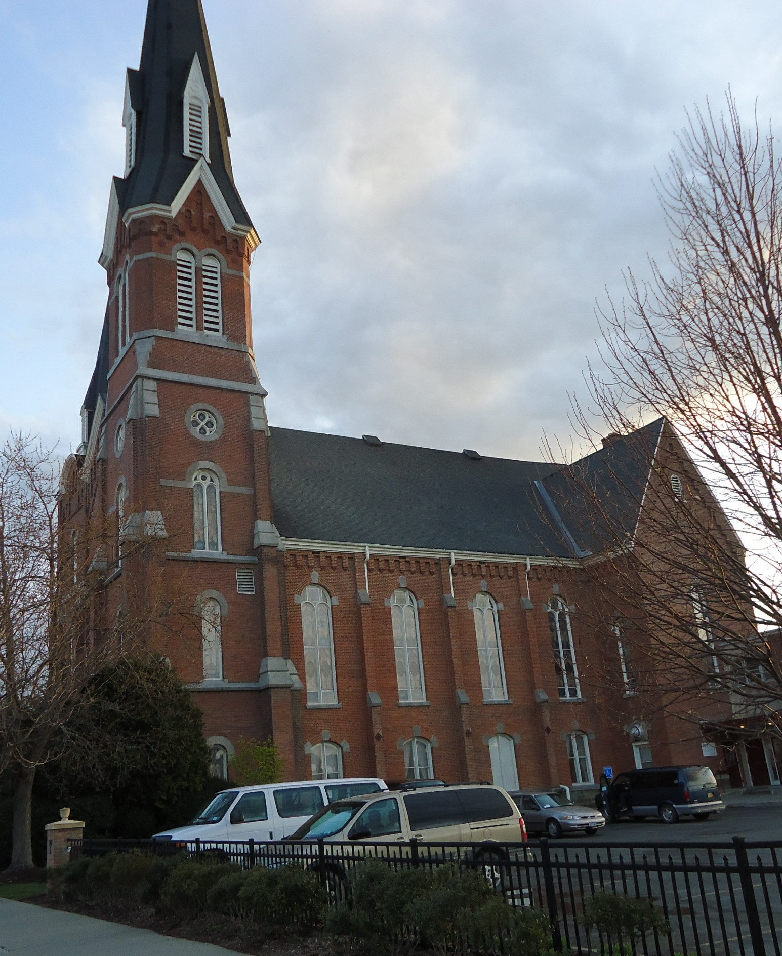 Pictures of the city of Norwich in Chenango County in New York State on an April morning. (note: correct date is April 9, 2012). Broad Street United Methodist Church with a tall tower.